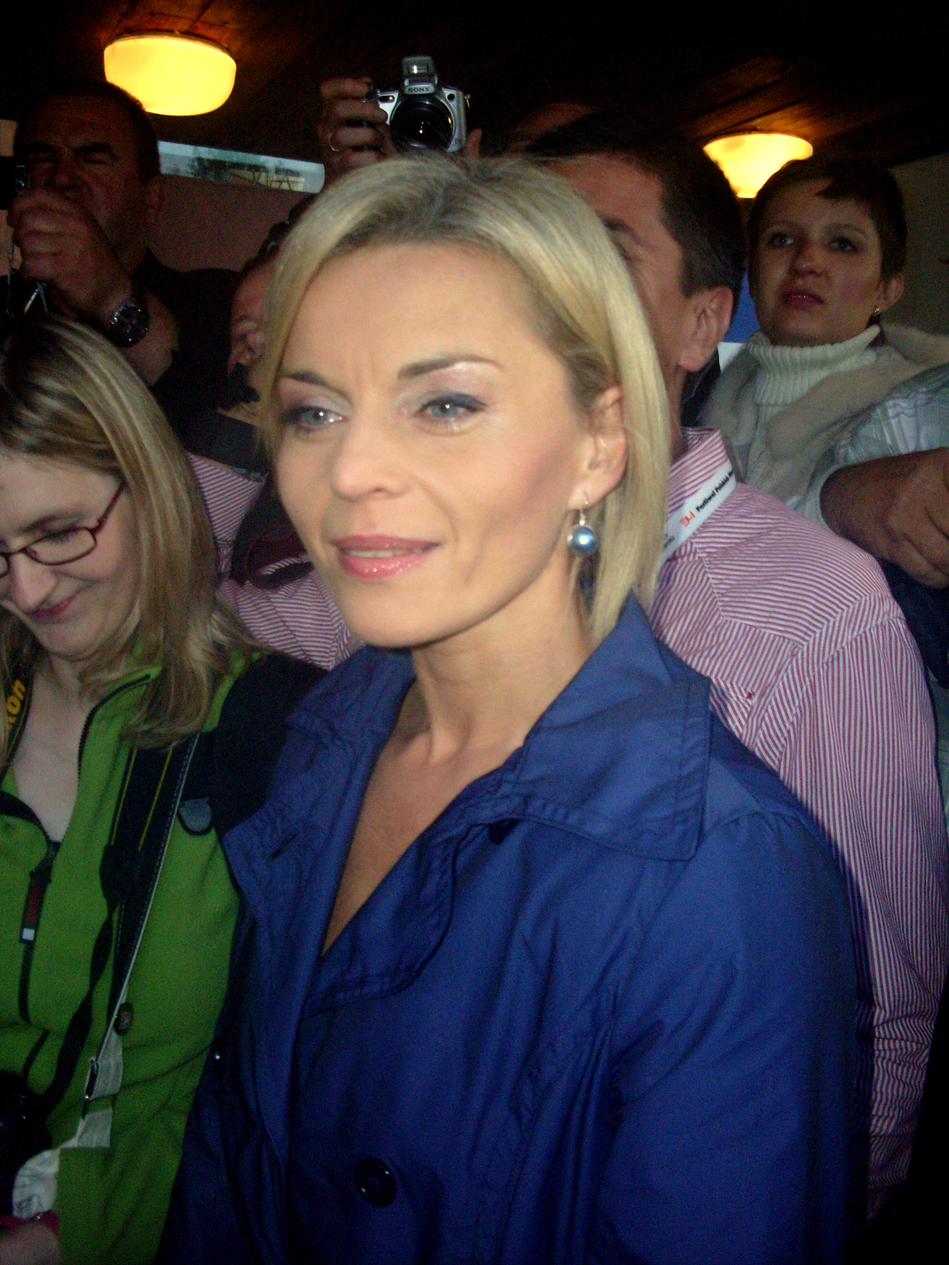 Polish actress Małgorzata Foremniak at opening of the XXXIV Polish Film Festival in Gdynia 2009.